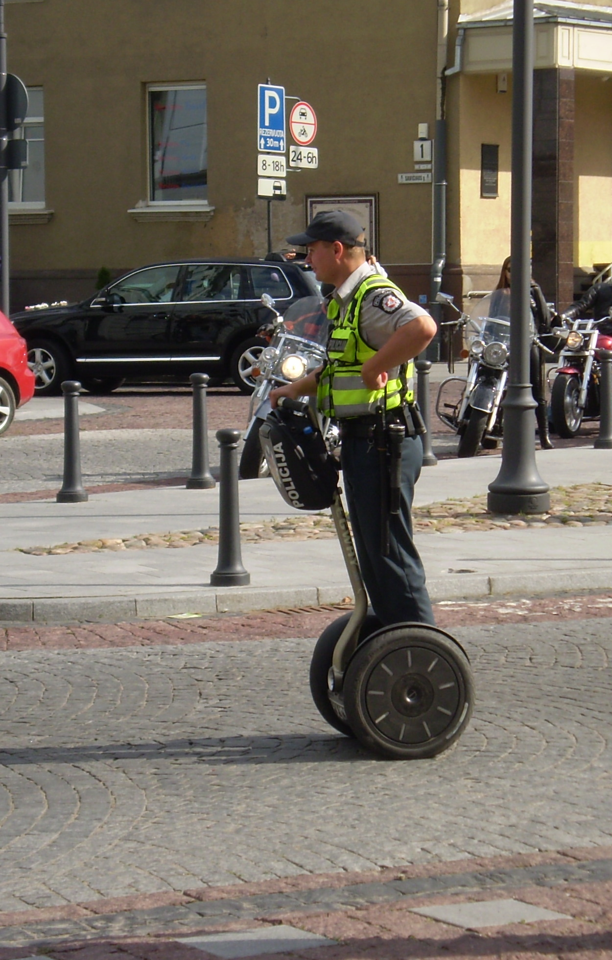 A police officer using segway in Vilnius.